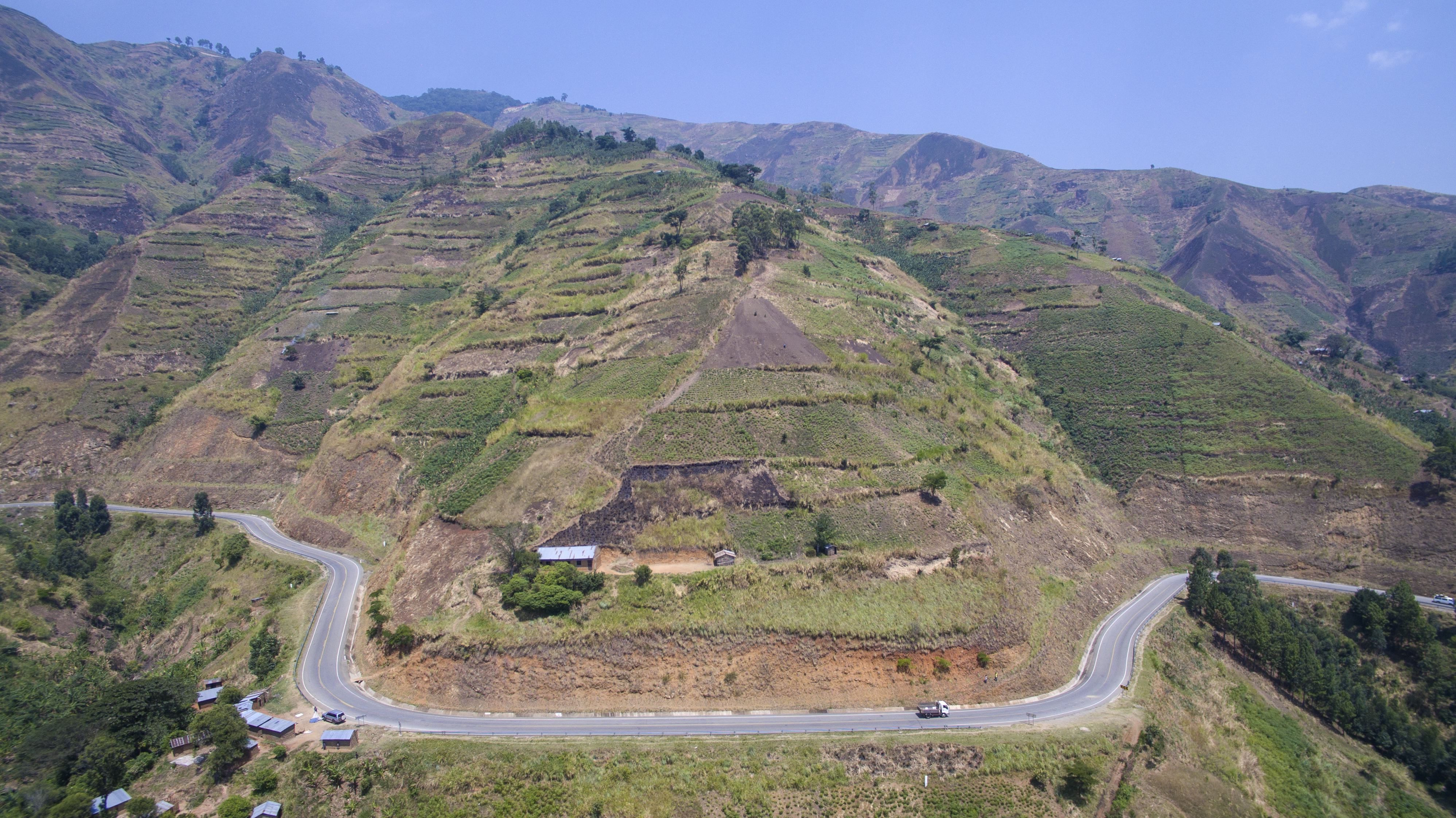 Bundibugyo road in western Uganda This is an image with the theme "Africa on the Move or Transport" from: Uganda